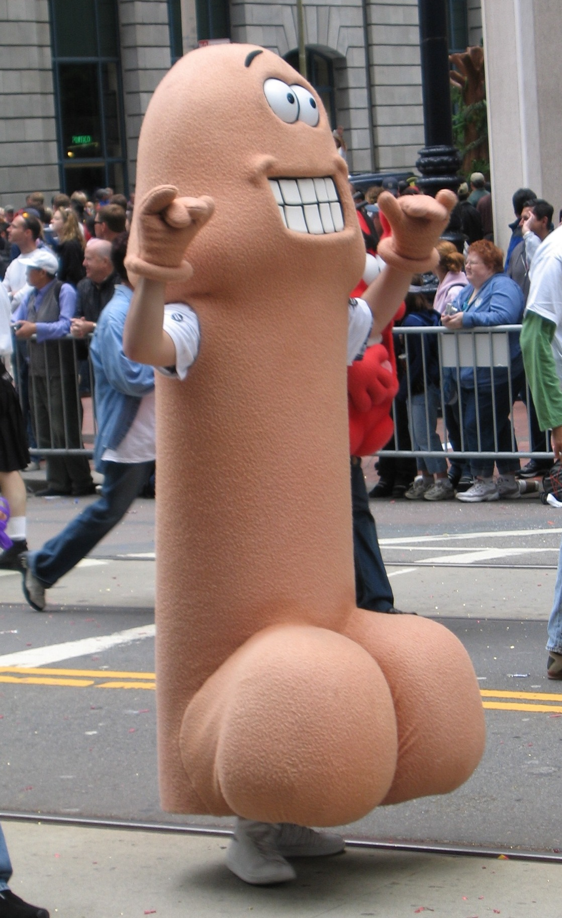 Walking penis. Gay pride parade, 2005. San Francisco, California, United States.